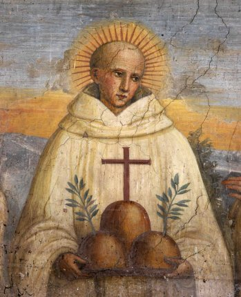 Fresco with St. Bernard Tolomei, at Monte Oliveto Maggiore Abbey